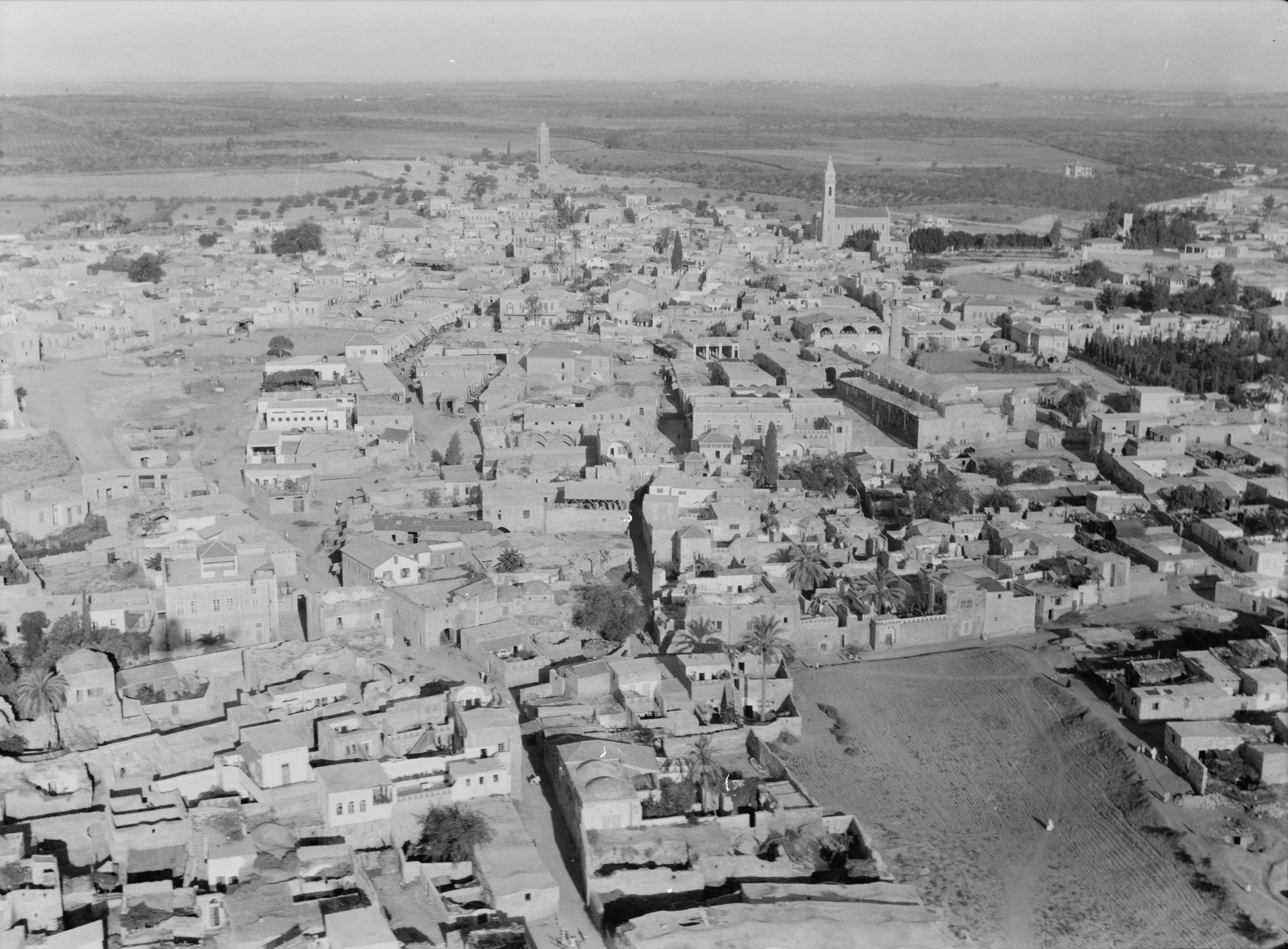 Title: Air views of Palestine. Air route over Cana of Galilee, Nazareth, Plain of Sharon, etc. Ramleh. Arimathea. Closer view Abstract/medium: G. Eric and Edith Matson Photograph Collection Physical description: 1 negative